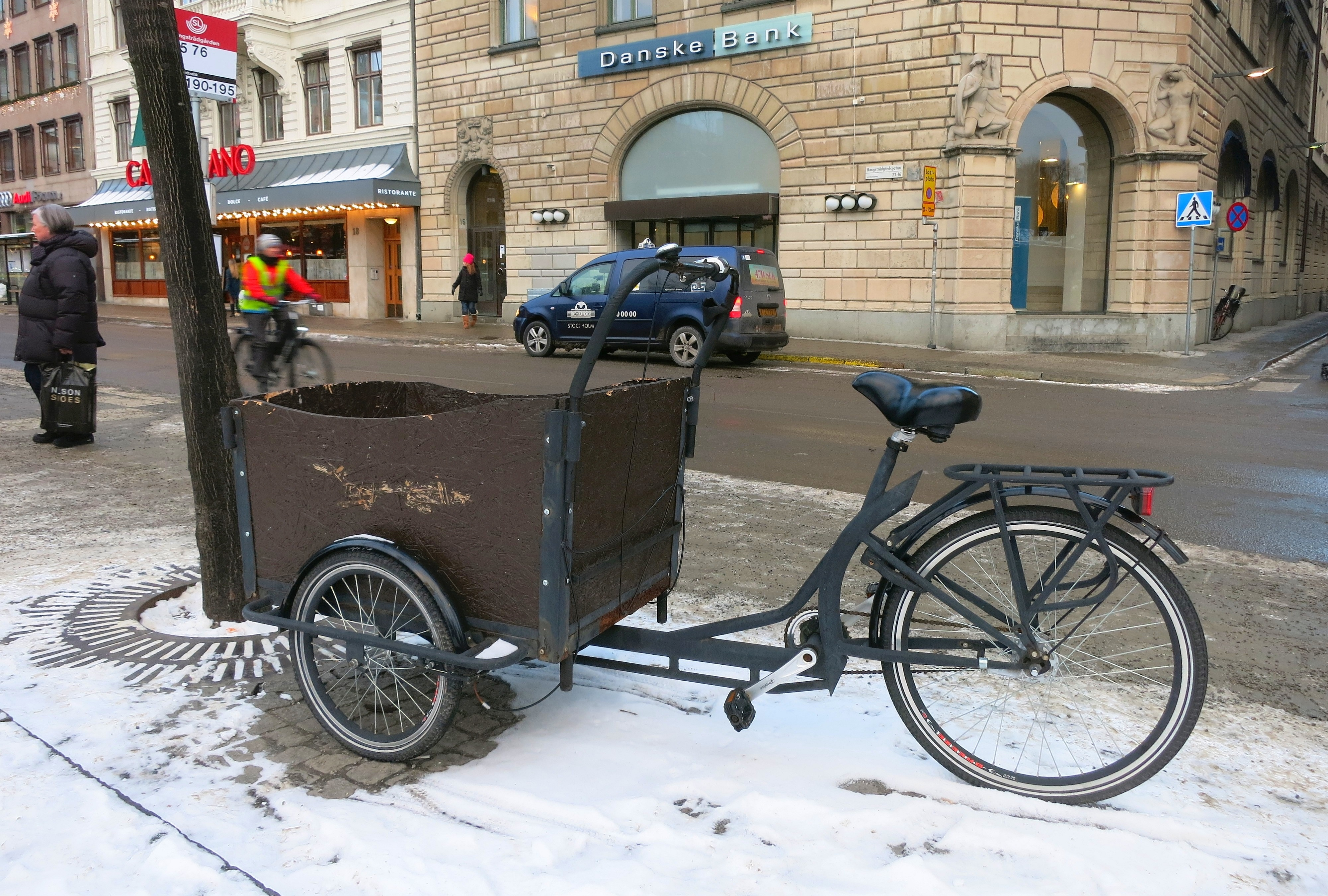 Cargo tricycle in Stockholm (Sweden)